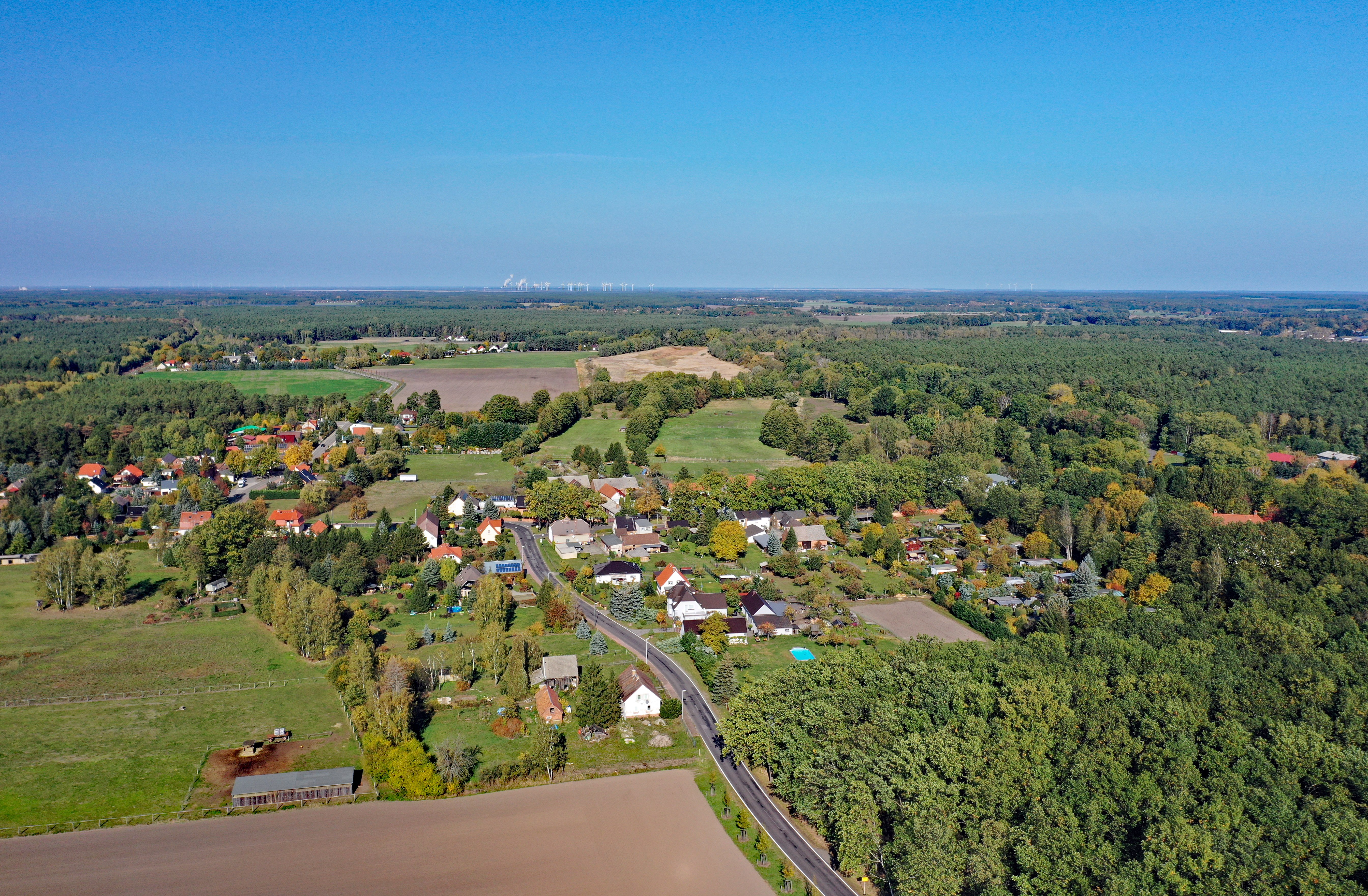 Bagenz (Neuhausen/Spree, Brandenburg, Germany)